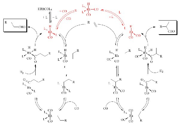 Schéma du mécanisme de l'hydroformylation